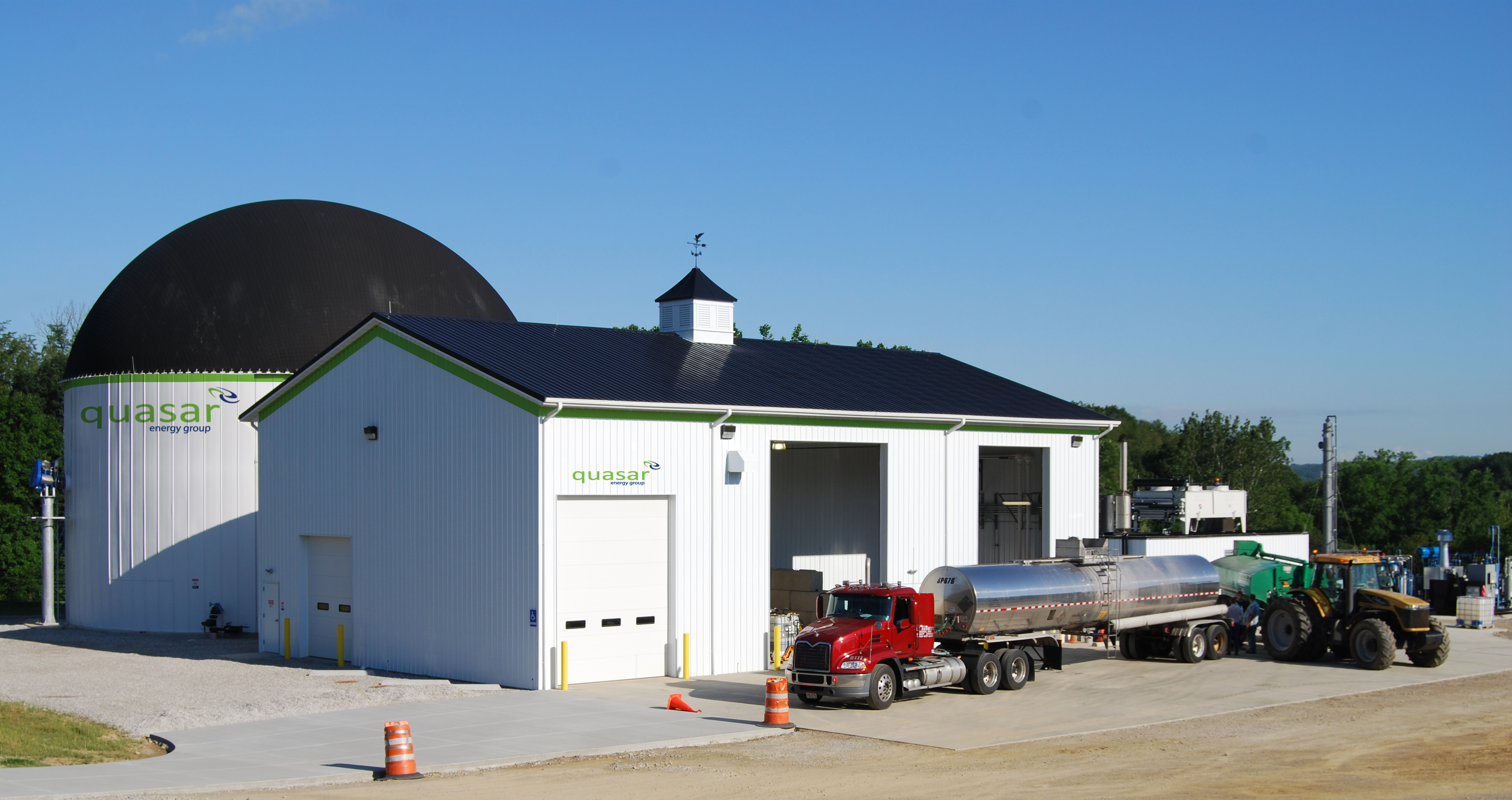 Quasar Energy Group's laboratory in BioHio Research Park, in Wooster, Ohio, United States.